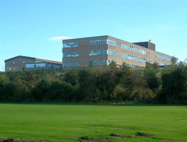 Kyle Academy This secondary school was opened in August 1979.